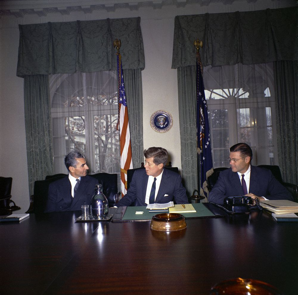 President John F. Kennedy meets with Mohammad Reza Pahlavi, the Shahanshah of Iran, in the Cabinet Room of the White House, Washington, D.C. Seated at the table (L-R): the Shahanshah, President Kennedy, and Secretary of Defense Robert S. McNamara.